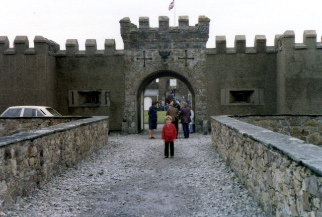 Entrance to Fort Belan, Dinas Dinlle, near Caernarfon, North Wales. Now, an historical unique Grade 1 listed 18th century Fort located within forty acres of private land in a remote area of outstanding beauty. Situated near Caernarfon, it guards the entrance to the Menai Straits. At present, it has six self catering cottages, making it an ideal spot for activity holidays in this area.